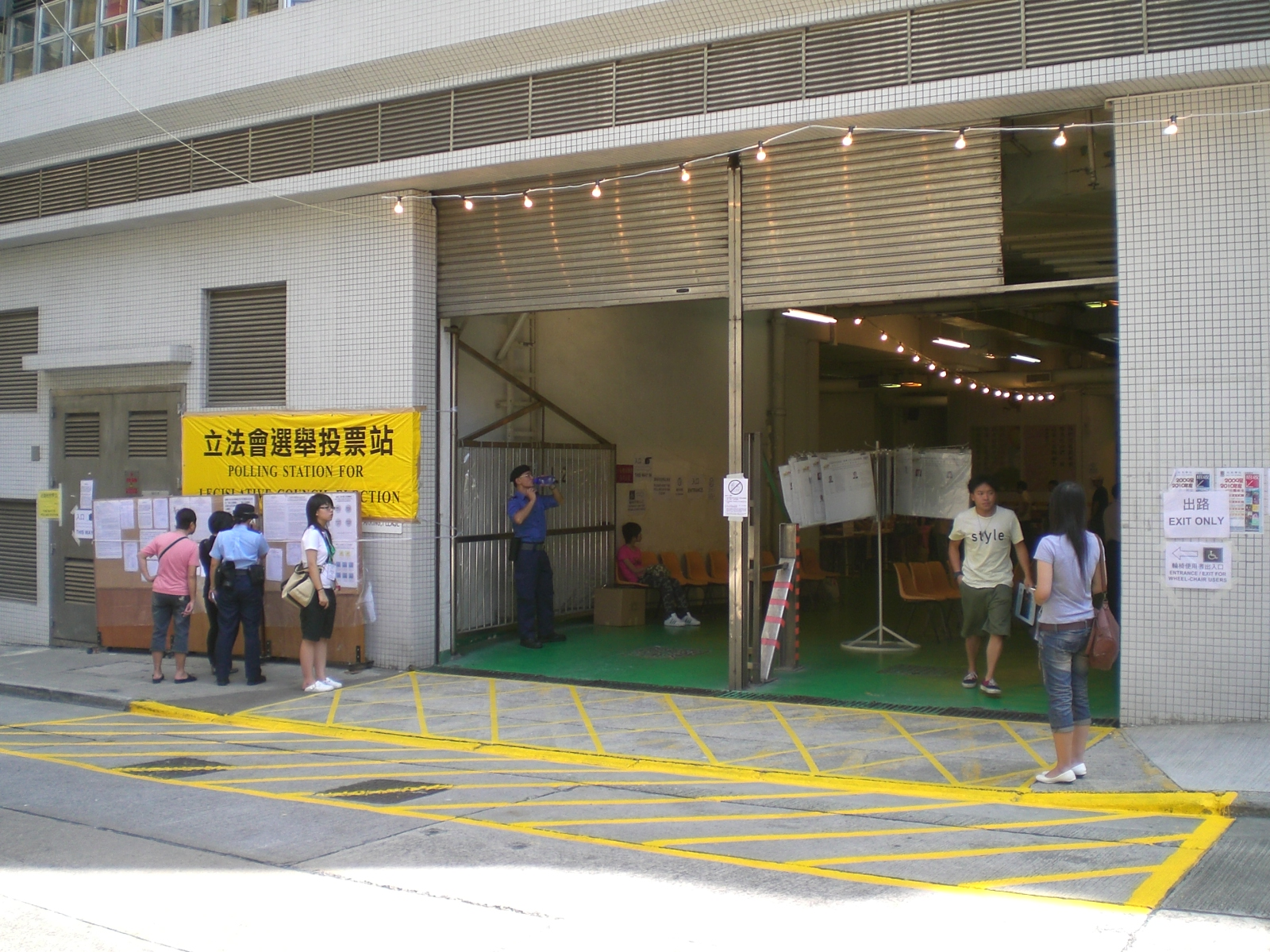 2008年香港立法會選舉, 在zh:西營盤zh:第三街救恩堂投票站和附近的票站調查及zh:禁區